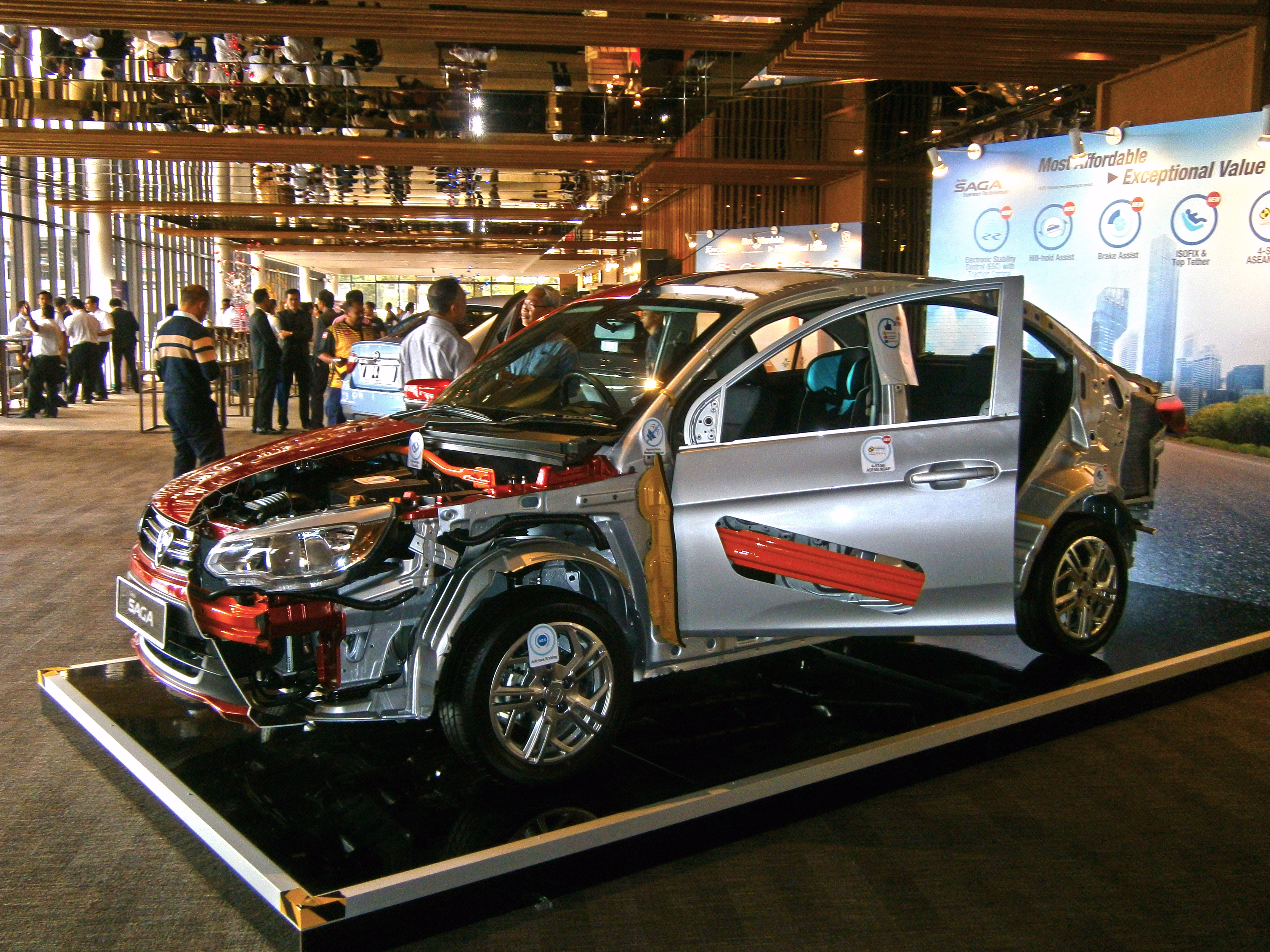 Overall safety standards in the third generation Saga aren't up to par with the Persona or Iriz. This is to be expected, because the new Saga is still based on an 11-year old platform. Plus, the Saga is Proton's entry level product, it's the cheapest sedan on sale in Malaysia. The truth is, the main buying demographic for the Saga (and its rival, the Perodua Bezza) simply do not have safety as a top priority. Many are first time car owners, some are upgrading from a motorcycle or old beater. To them, any new car will be much safer than what they're accustomed to... but it will also have to be cheap enough for them to be able to afford it. And herein lies the dilemma for Proton... should they include anti-lock brakes (ABS) and electronic stability control (ESC) on all new Sagas and be forced to raise prices ? Or should they omit these features and gain a price advantage over the Bezza ? Proton has gone with the 'middle ground' here... they've left out ABS on the base model, and they've fitted ESC on the top-spec Saga. Most car companies and distributors in Malaysia follow this 'levelled' policy. On another note, Proton has also strengthened the body structure by 20%, and they're offering twin airbags on all new Sagas.